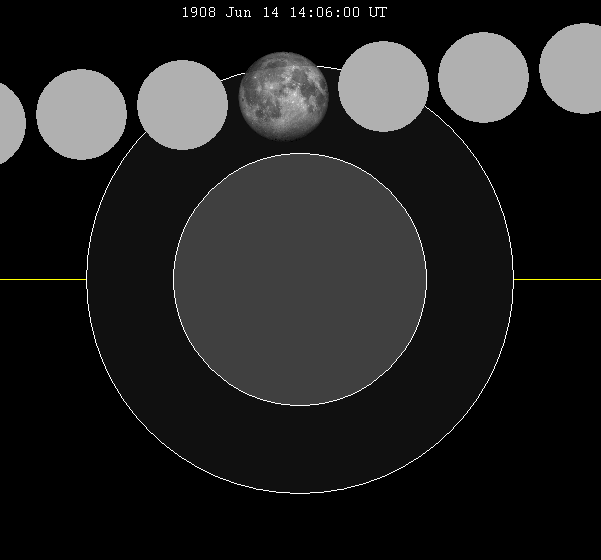 =lunar eclipse chart of moon's path through the earth's shadow. thumb